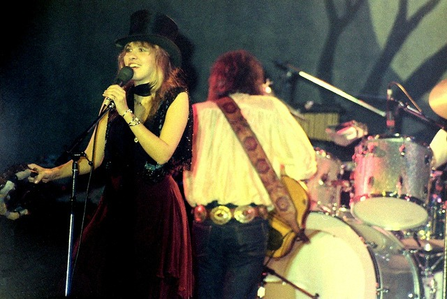 Fleetwood Mac - 1977 - Comback To Europe Tour - in Frankfurt/Höchst